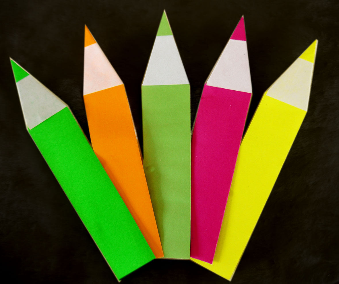 completed picture of origami pencil